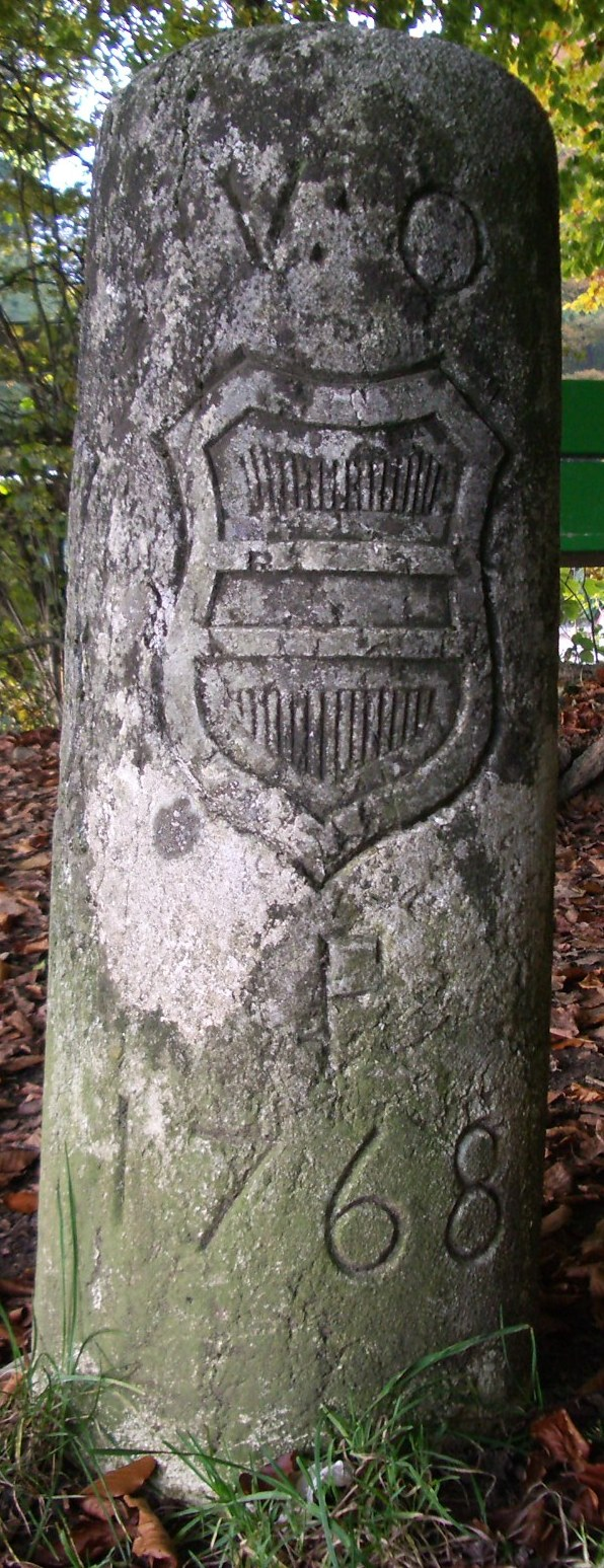 Boundary stone of 1768 of Further Austria, on Salhöhe Pass/Switzerland. The back side looks like this